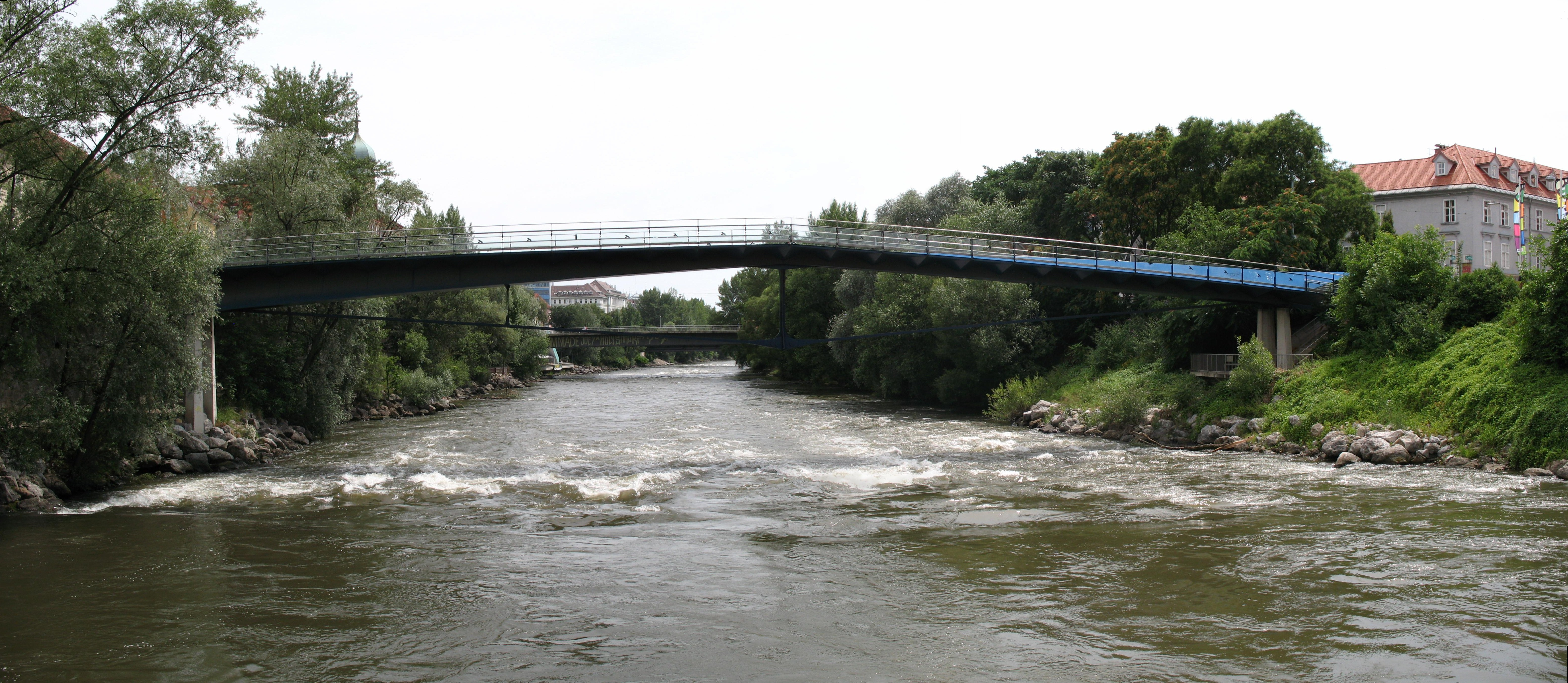 Mura River, Graz, Austria